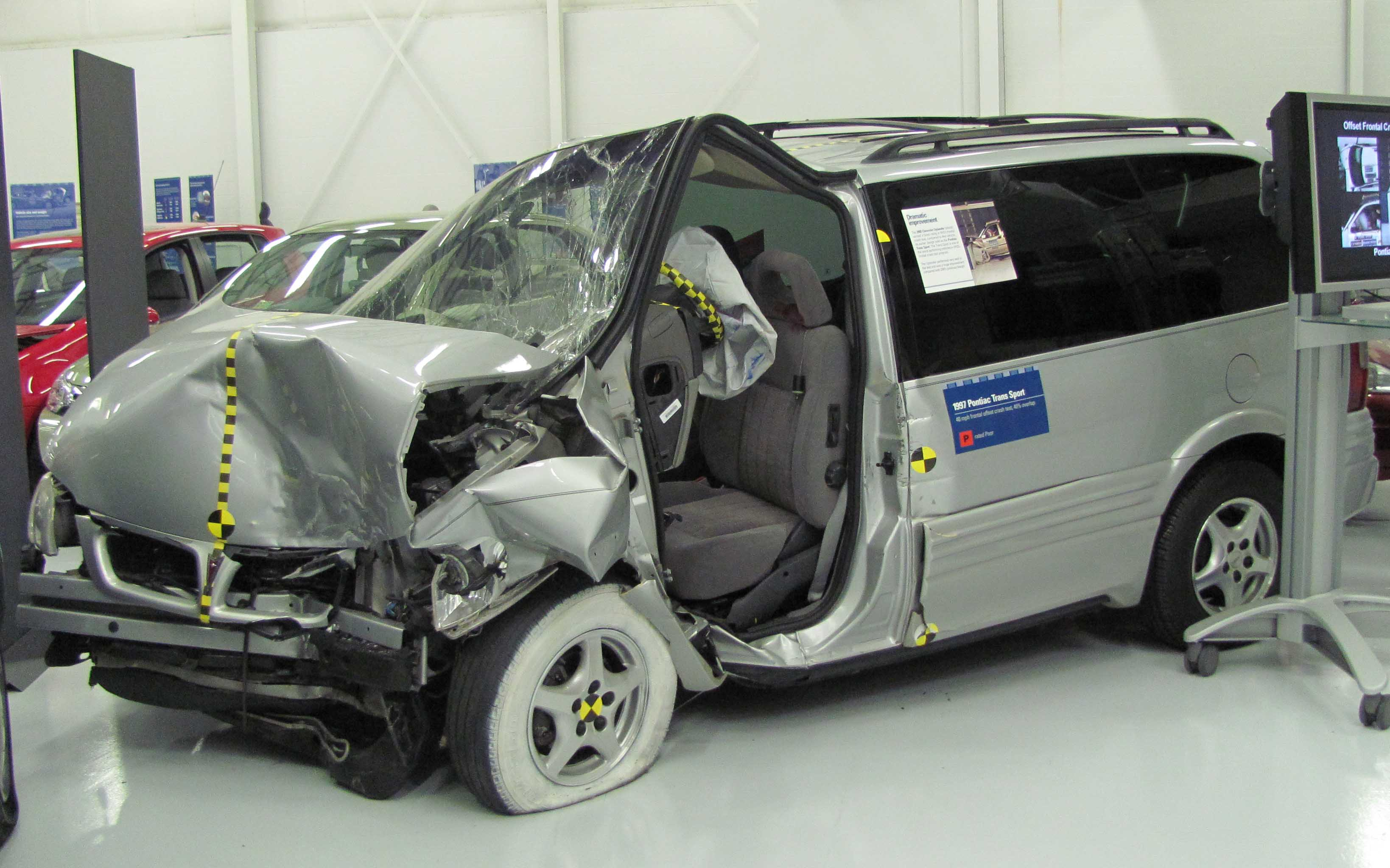 Crash-tested 1997 Pontiac Trans Sport SE photographed at the Insurance Institute for Highway Safety Vehicle Research Center. IIHS crash test page